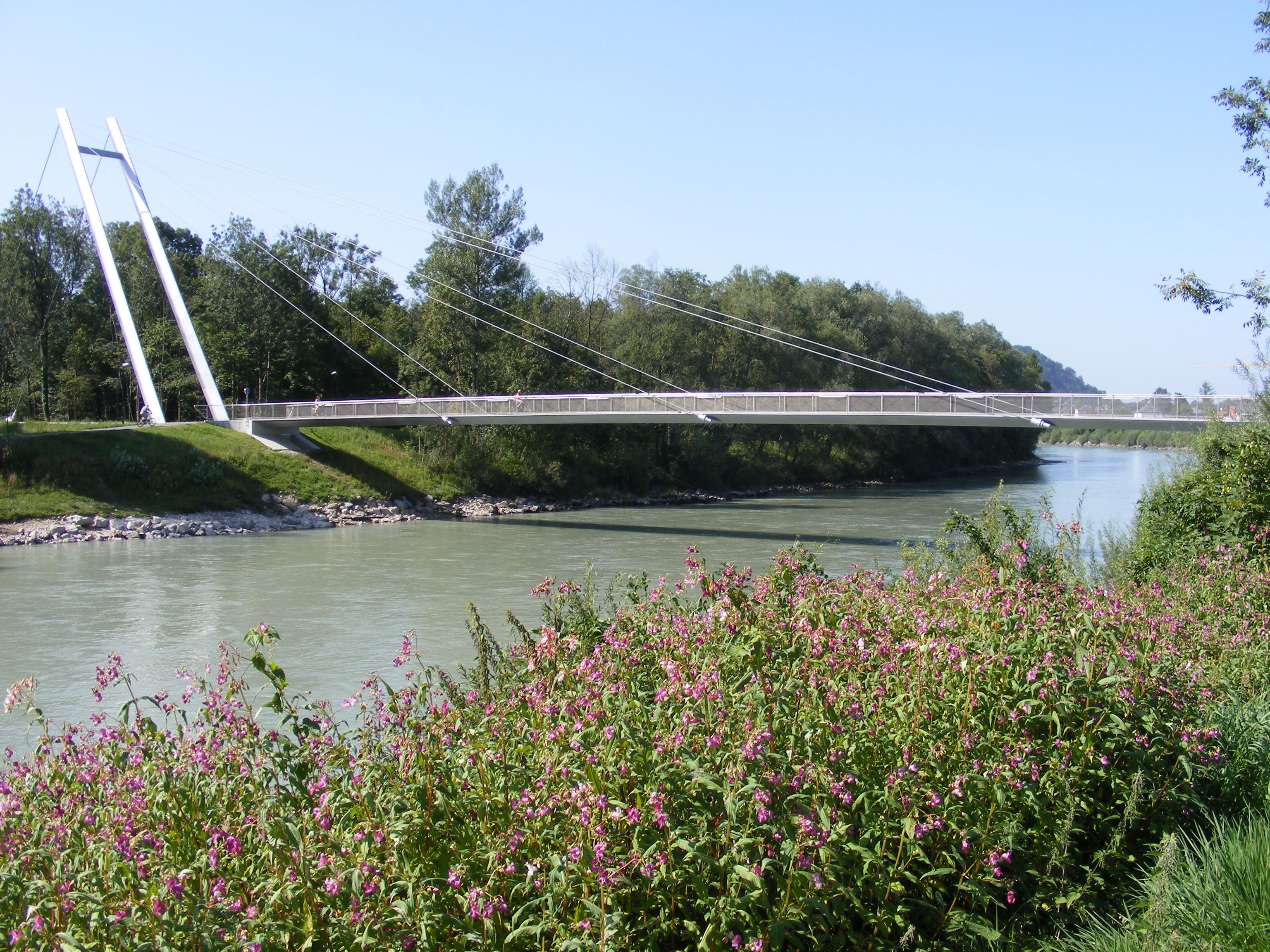 Wilhelm Kaufmann footbridge, Salzburg